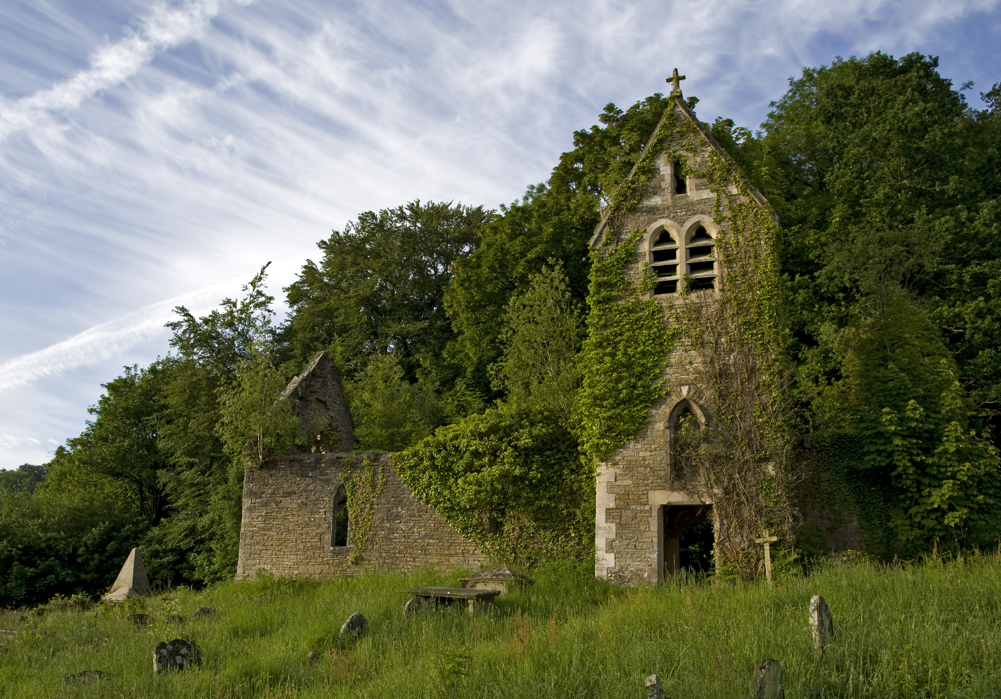 CHAPEL HILL, St. Mary (1863-1868) Monmouthshire Parish of TINTERN PARVA, Llandaff diocese ICBS 06254 Grant Reason: Enlargement Outcome: Approved Professionals PRICHARD, John: b. 1817 - d. 1886 of London and Llandaff (Architect) Notes: For new vestry, rebuilding of much of south wall, reseating and repairs Minutes: Volume 18 pages 105,242, Volume 19 page 169